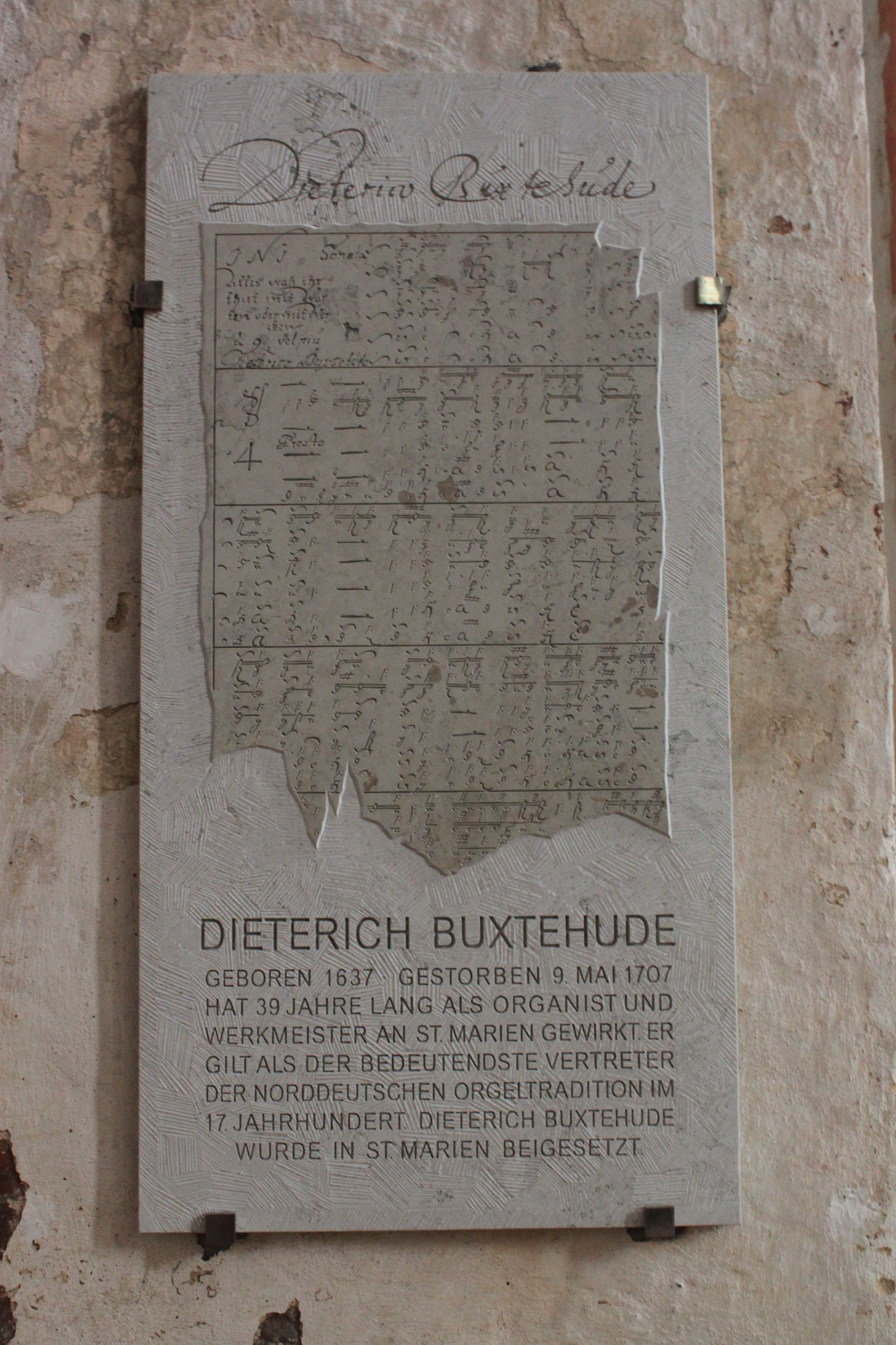 Memorial tablet for Dietrich Buxtehude in St. Mary's Church, Lübeck